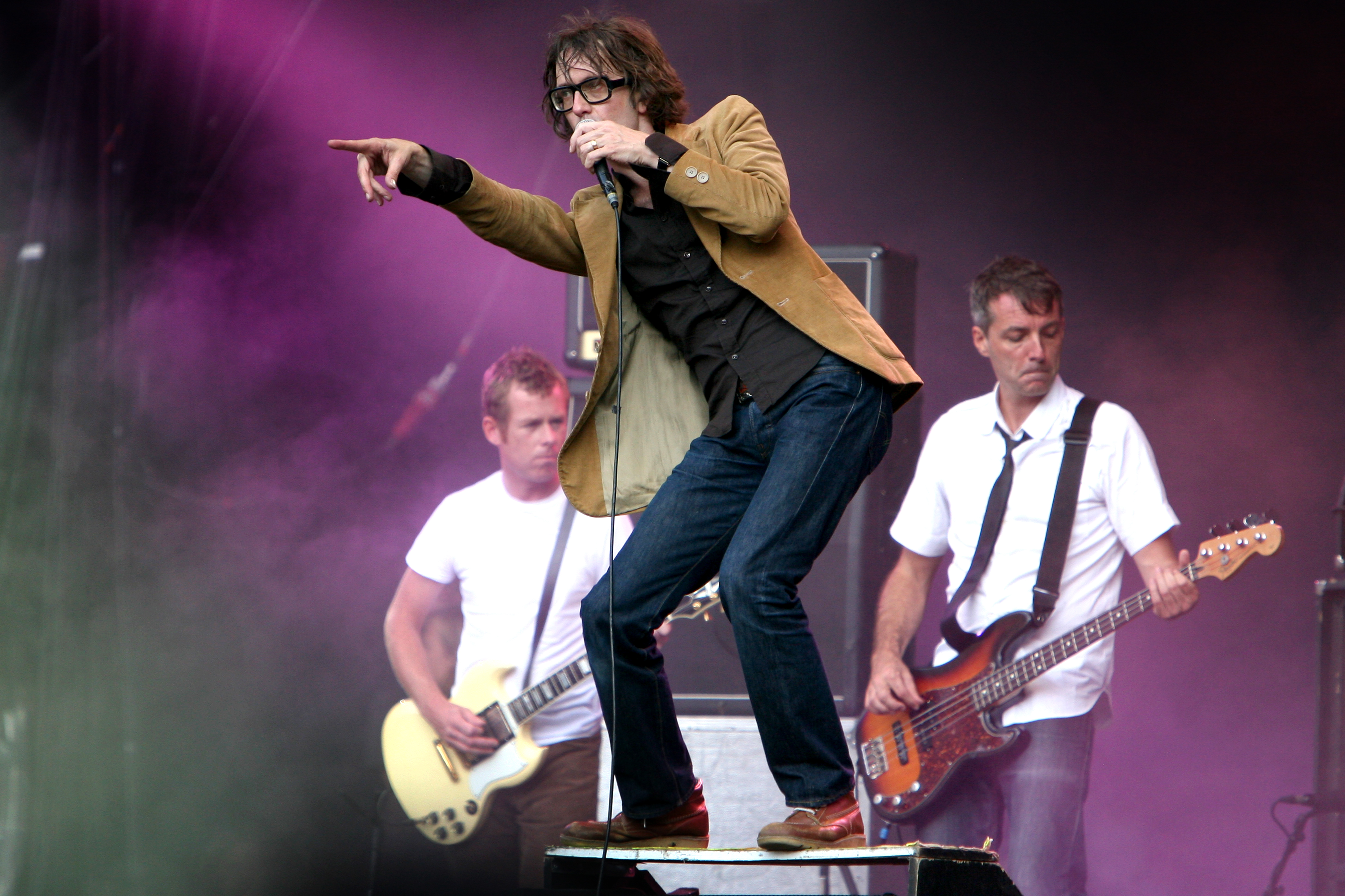 PULP at Primavera Sound May 2011